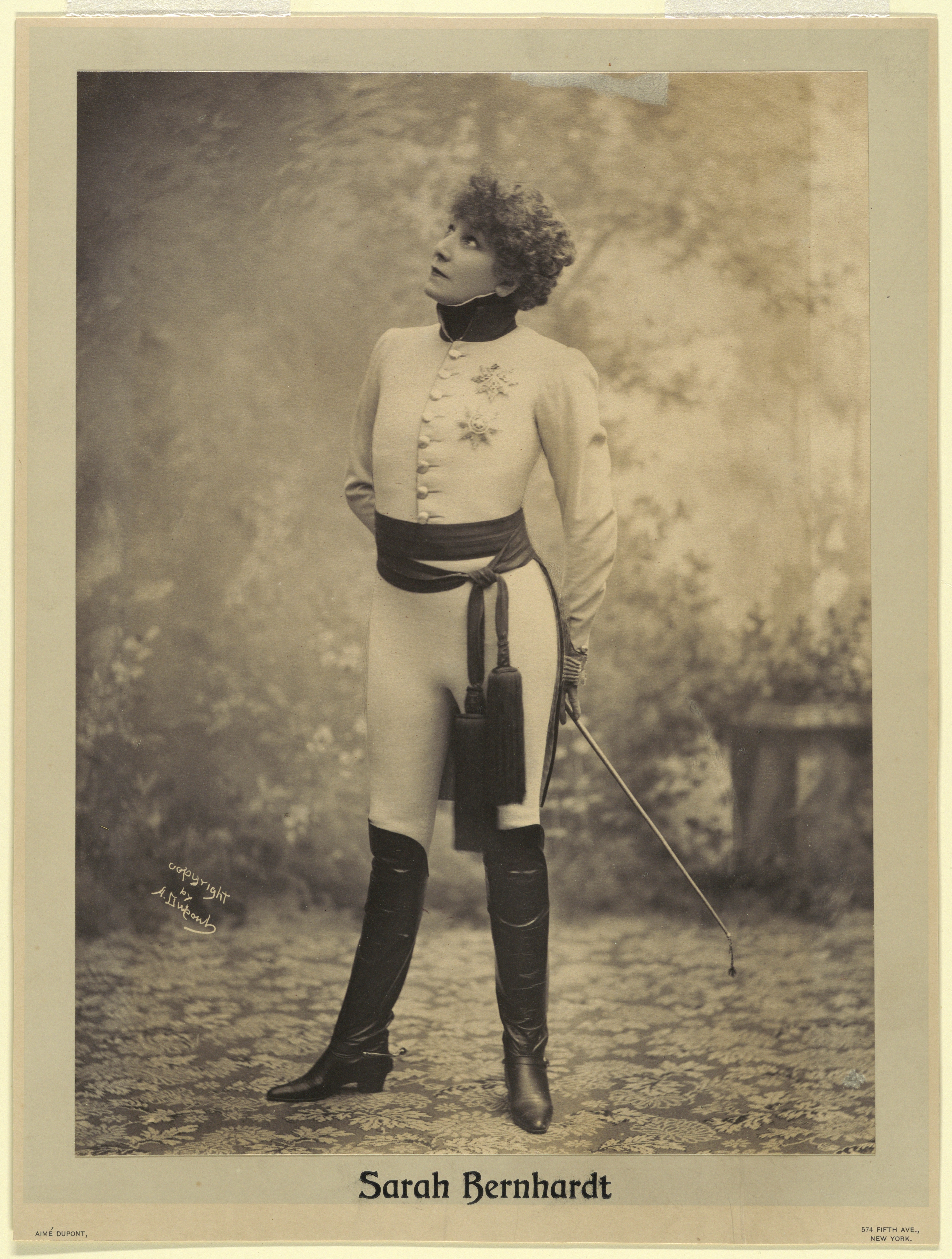 Full-length vertical format portrait of the actress turned toward the left. She is dressed in a military uniform and holds a whip behind her back.